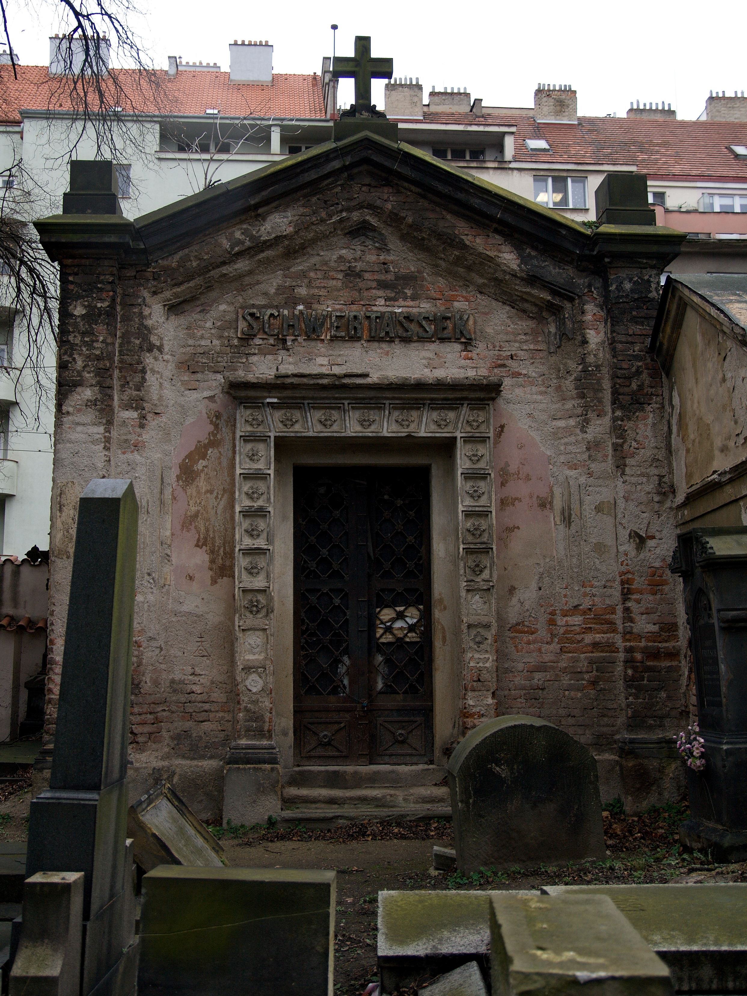 Olšanské hřbitovy Cemetery - Grave of Schwertassek Family